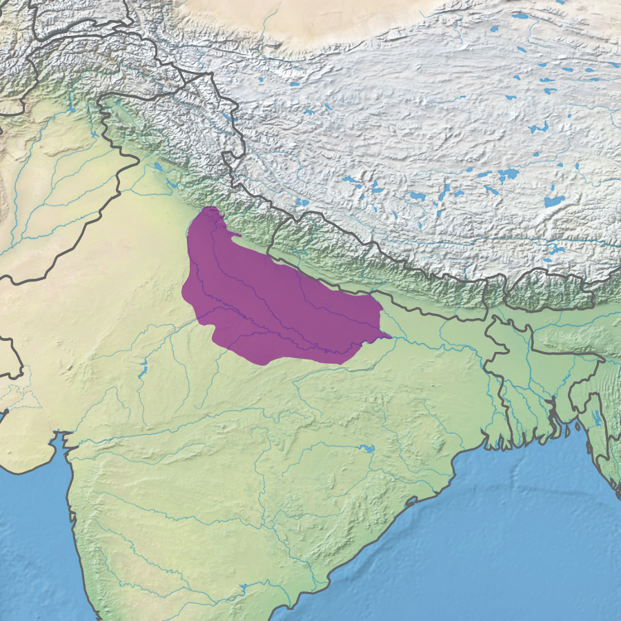 Ecoregion IM0166 - Upper Gangetic Plains moist deciduous forests (in purple)